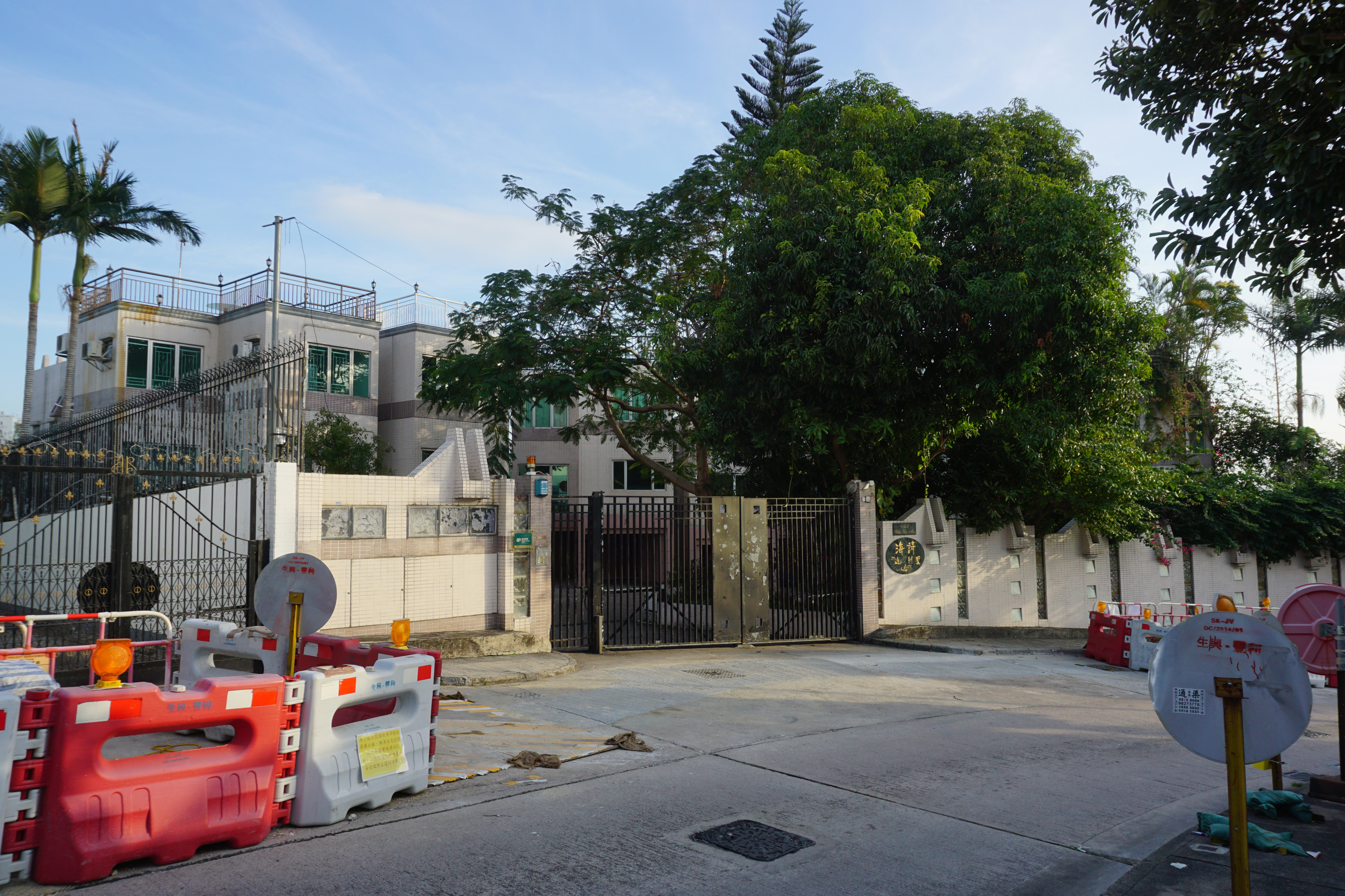 Villa De Mer in Siu Lam, Hong Kong.